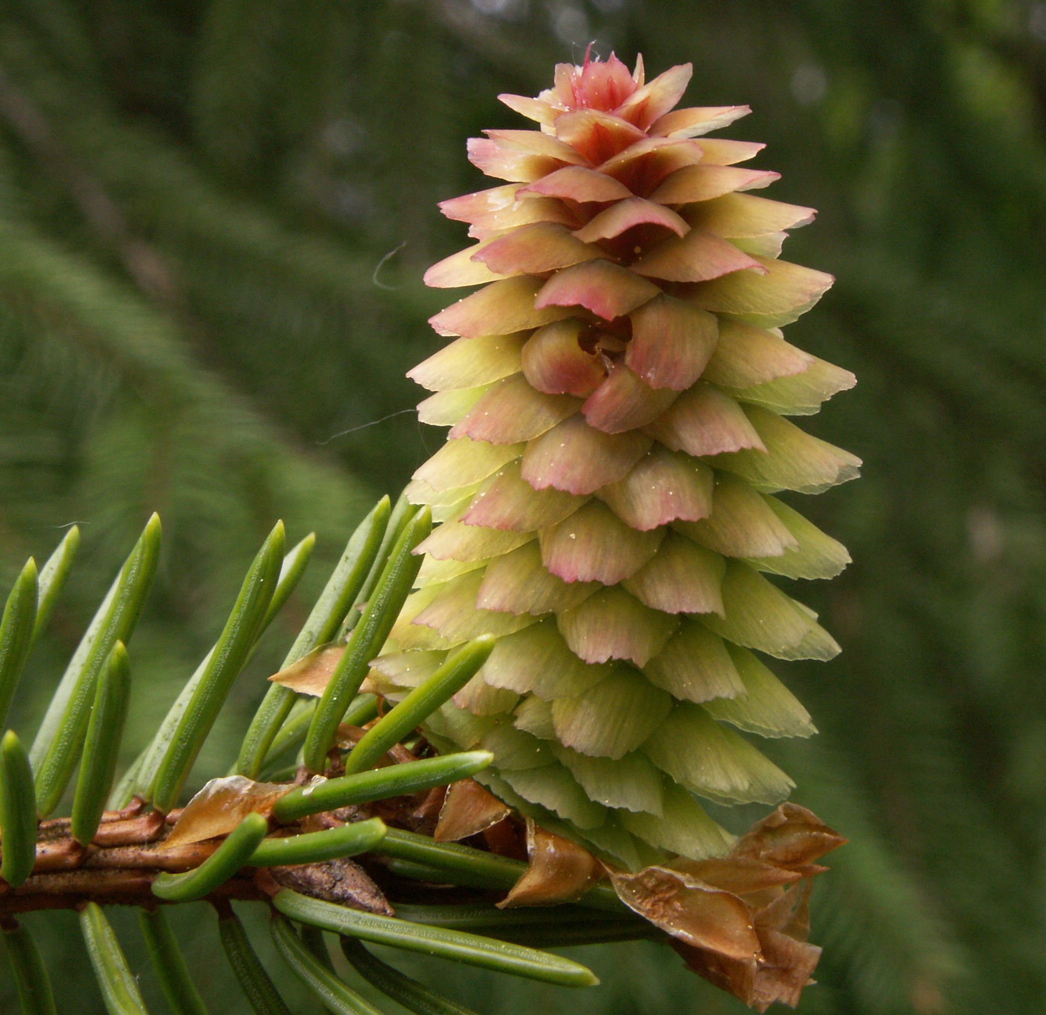 Picea abies, female flowers, green